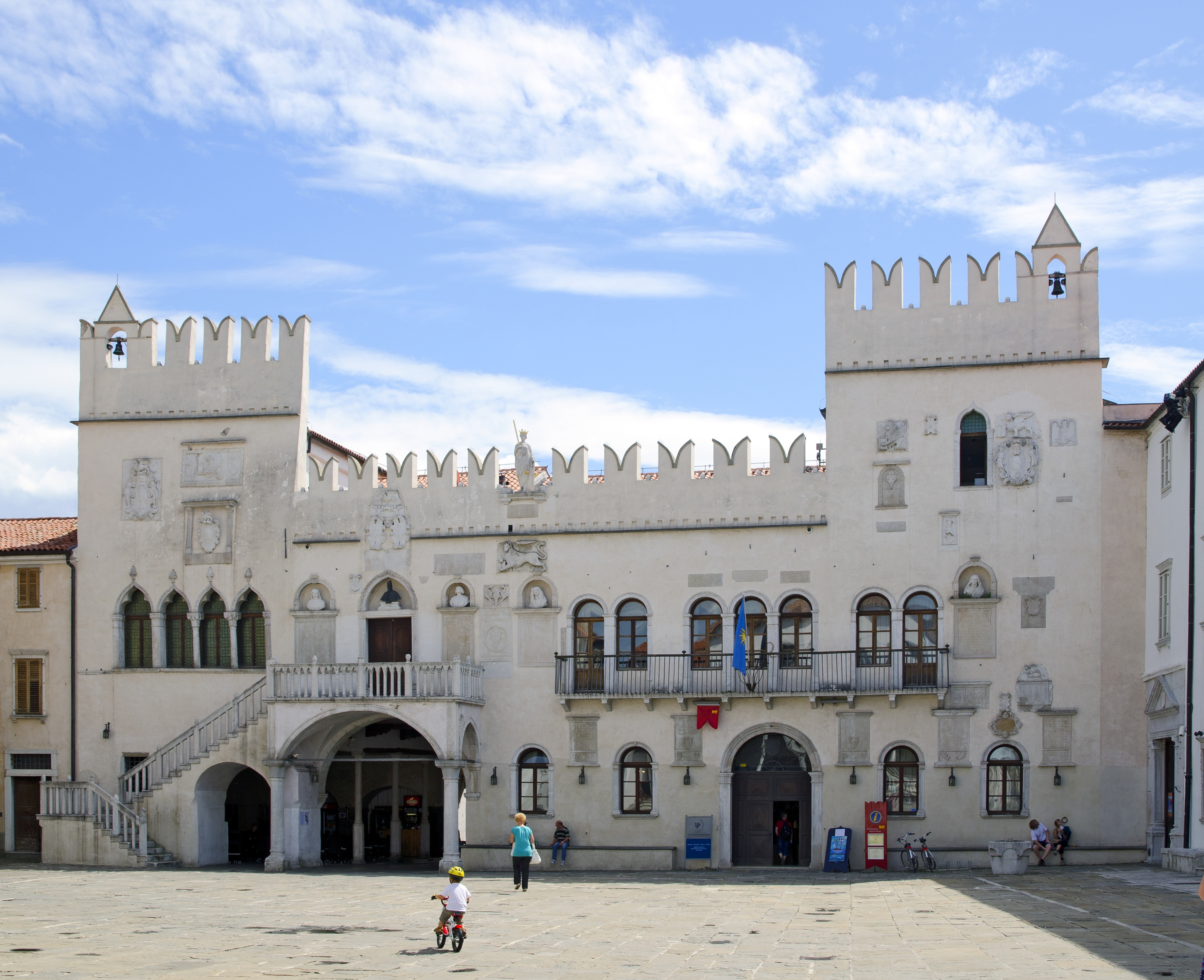 Koper (Slovenia), Praetorian Place (built in the 13th century)